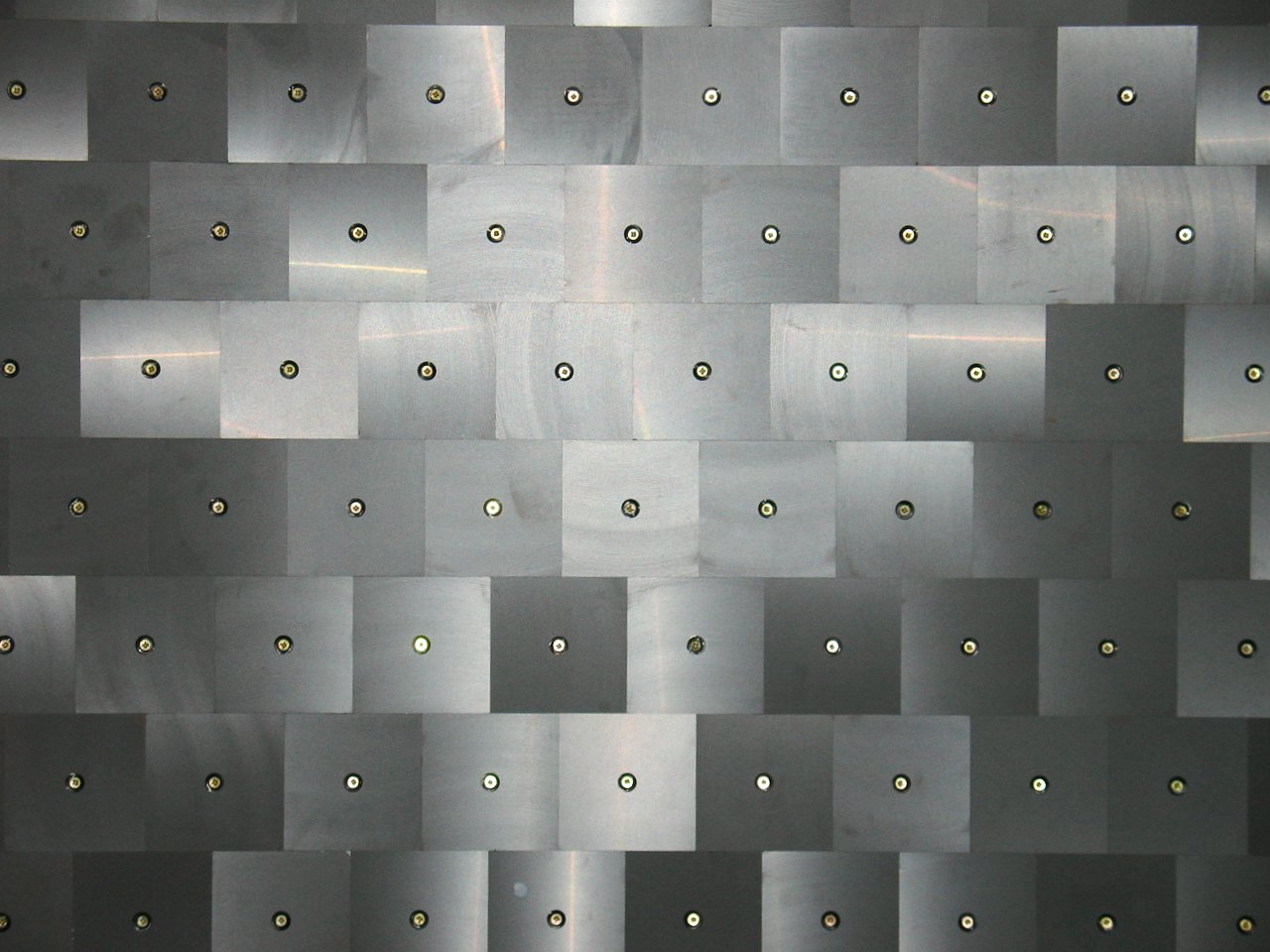 Ferrite slabs in an electromagnetic shielding room